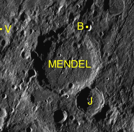 LROC image used for the presentation